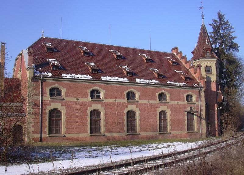 old hydroelectric power plant in Marbach am Neckar (Germany)